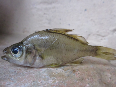 Parambassis thomassi, location: Pallimukku-Kayaltheeram Road, Ward 4, Mannanchery, Kerala 688538, India.